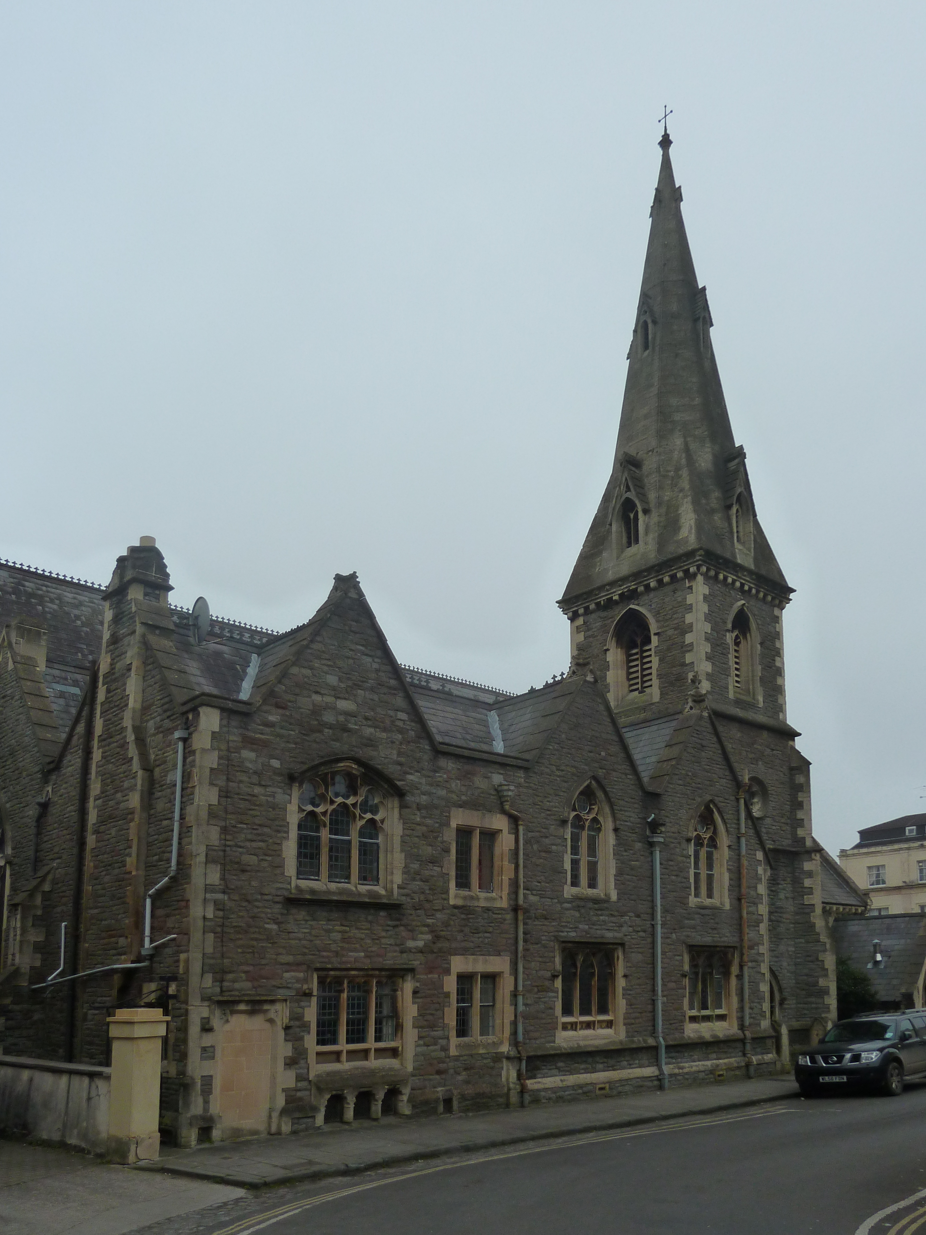 St Paul's Church, Clifton, Bristol